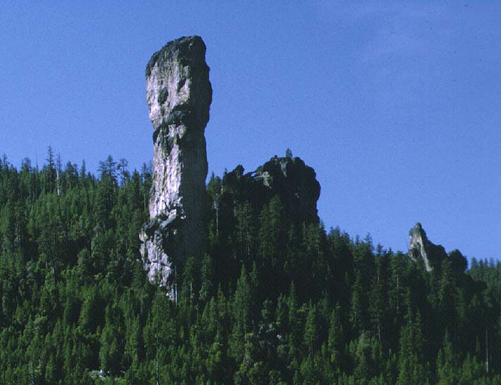 Steins Pillar as viewed from the north along Rd. 33, Ochoco National Forest, Oregon